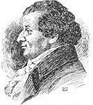 Philosopher Lazarus Bendavid 1762-1832, follower of Kant